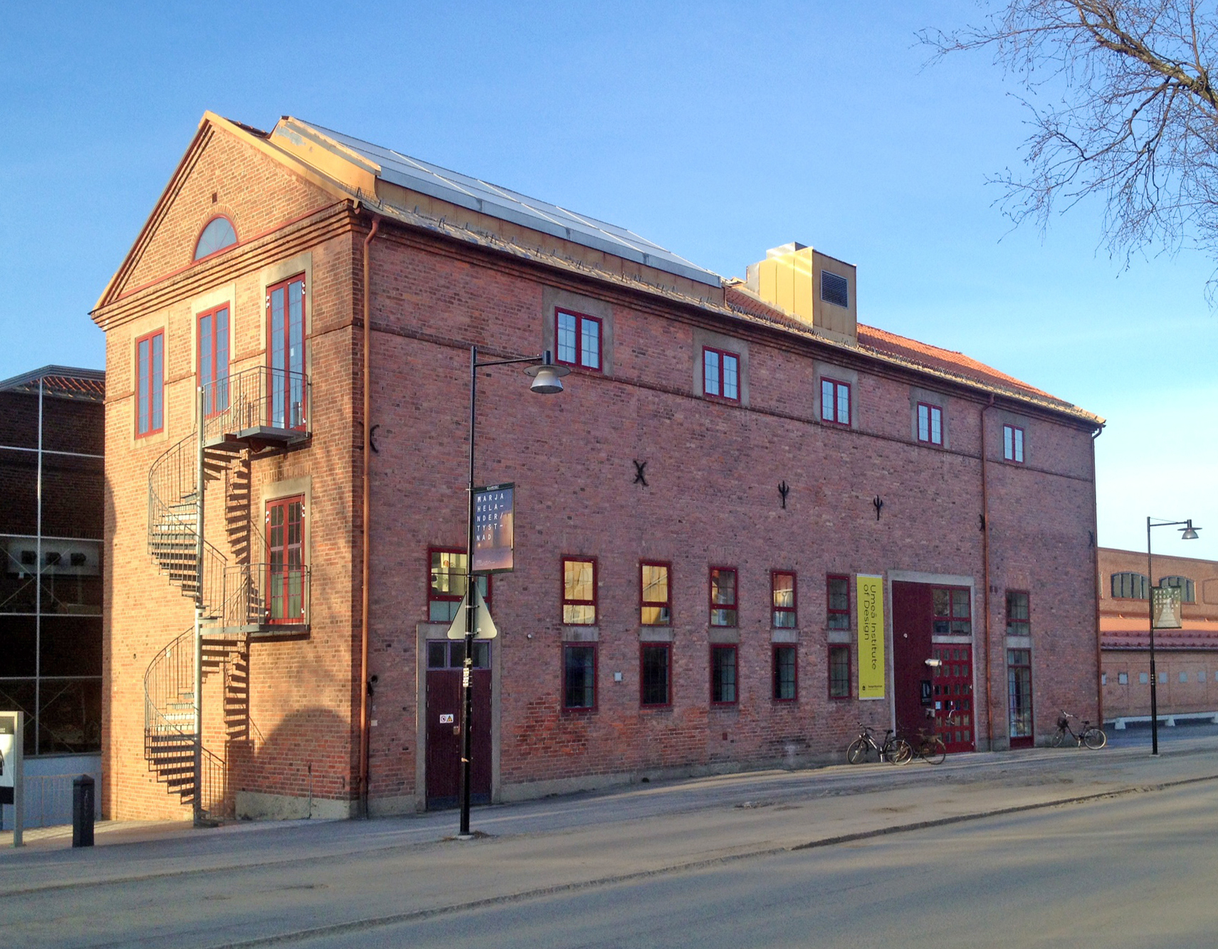 The original building of Umeå Institute of Design. Formerly an electrical distribution plant built in 1926.